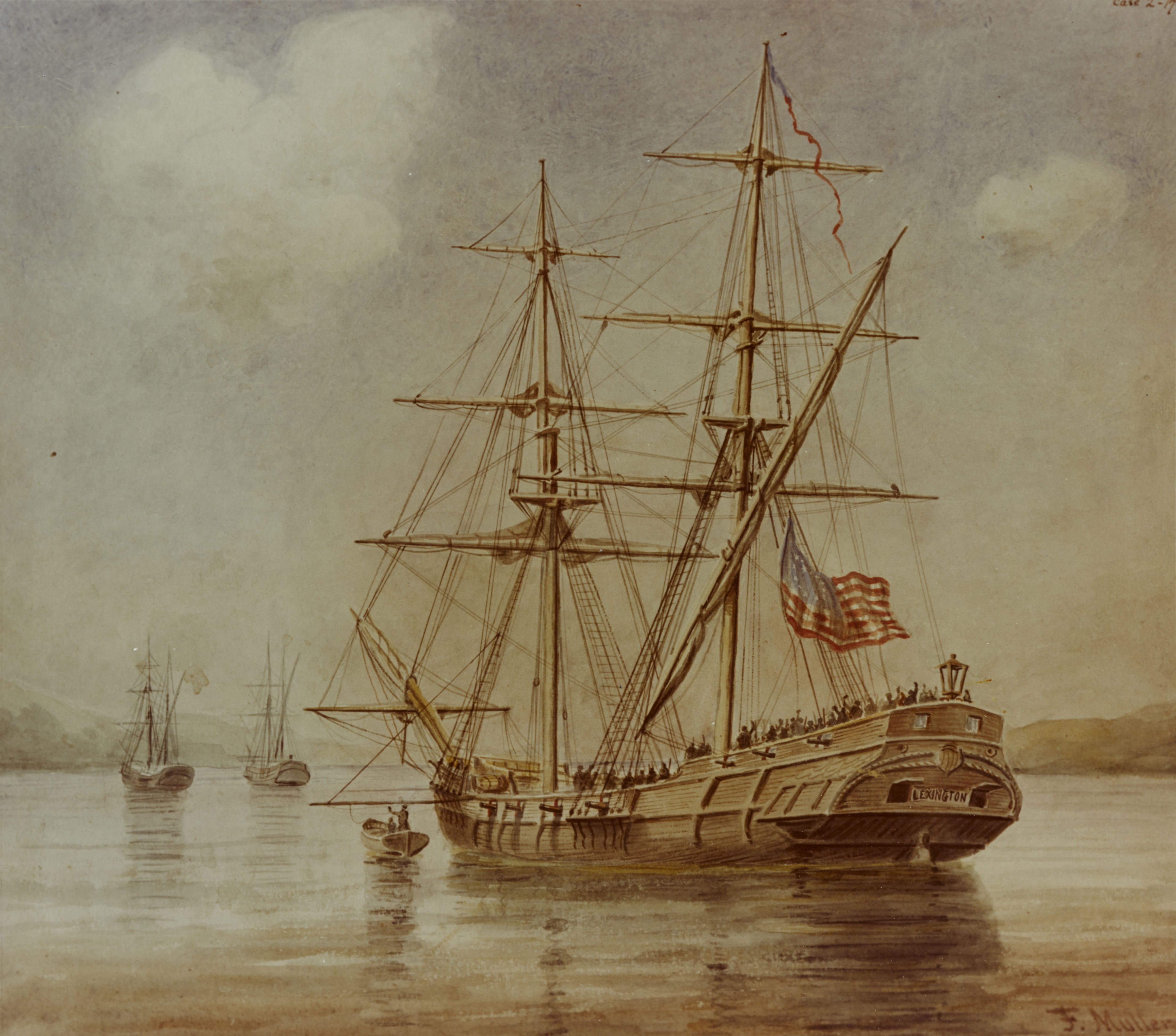 Painting by F. Muller, circa 1900, depicting the raising of the Continental Ensign on board the brig Lexington, commanded by John Barry, 1776